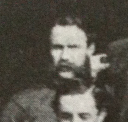 J S Thomson from a picture of the first Scotland Rugby side in 1871.